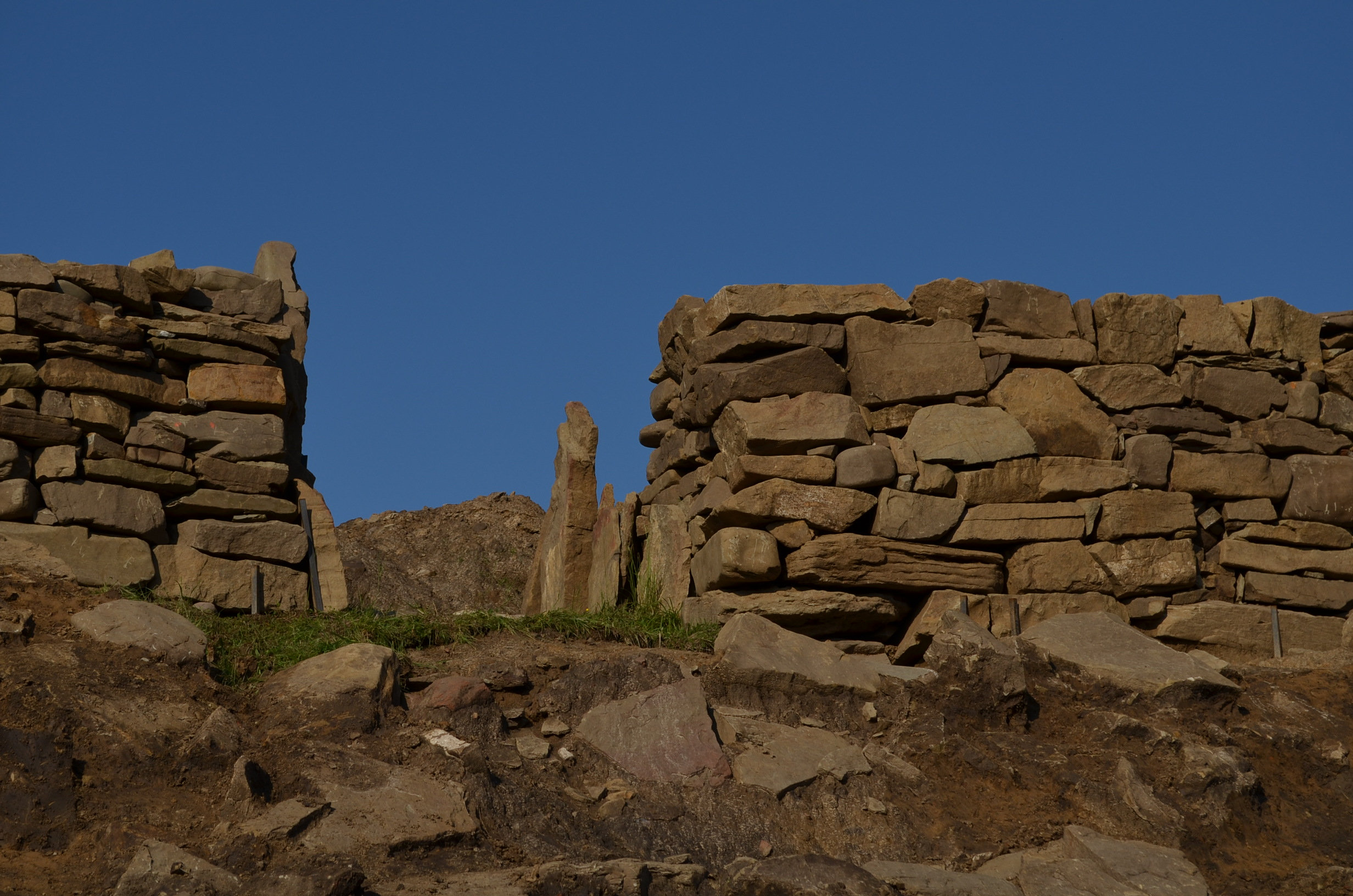 The Early Bronze Age hillfort in Maszkowice (Western Carpathians) - eastern gate after restoration in 2018